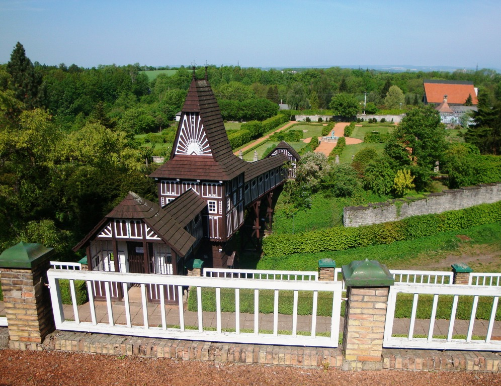 Nové Město nad Metují, castle gardens. Architekt D. Jurkovič, 1911